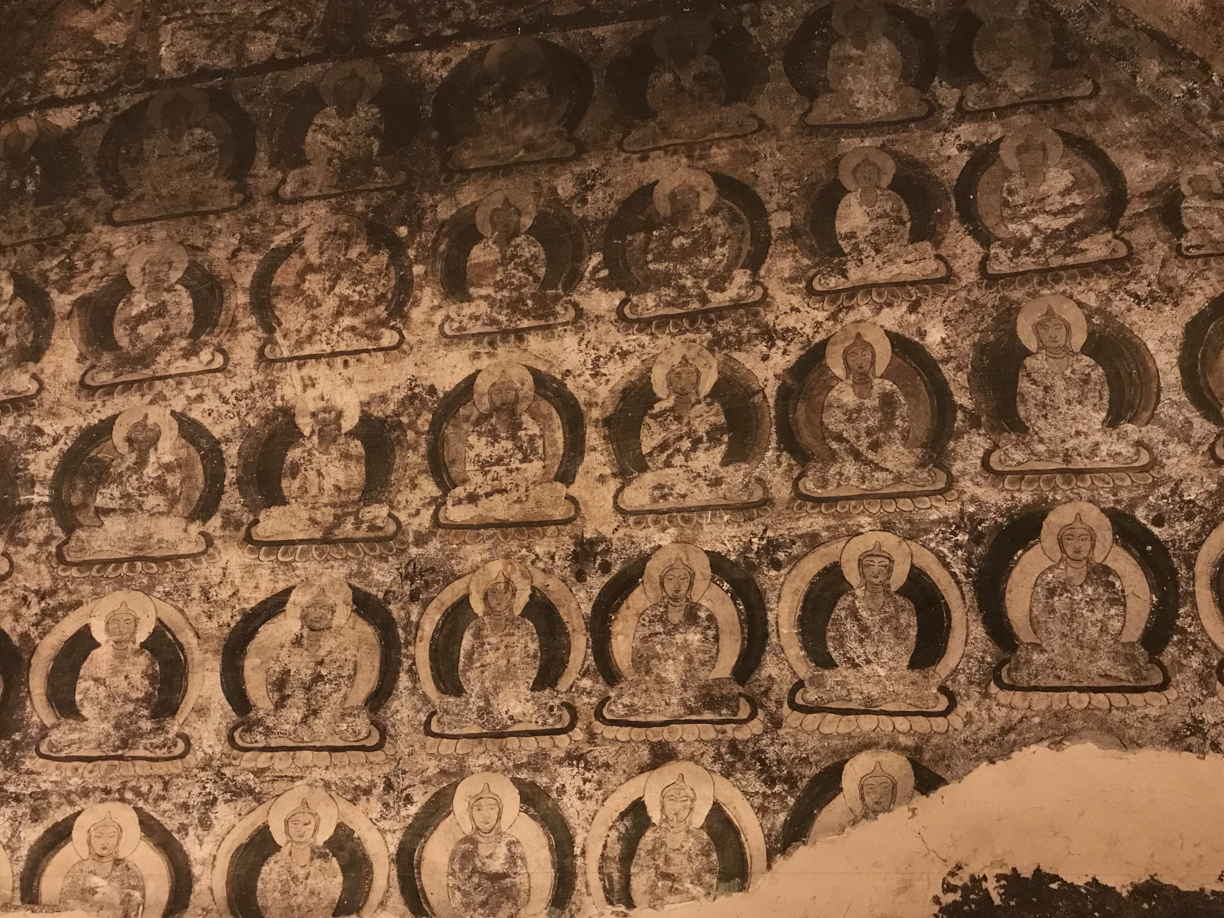 reproduced mural of cave 29, yulin caves picture taken from exhibition (dunhuang silkroad, eudaemonic existence) in Shanghai Center, 2018